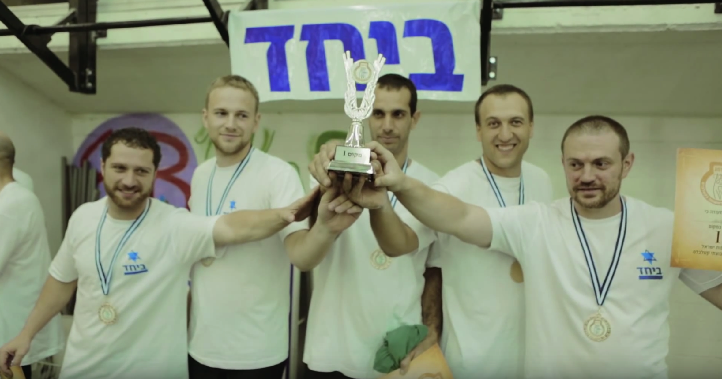 Финал - Первый чемпионат Израиля по гиревому спорту